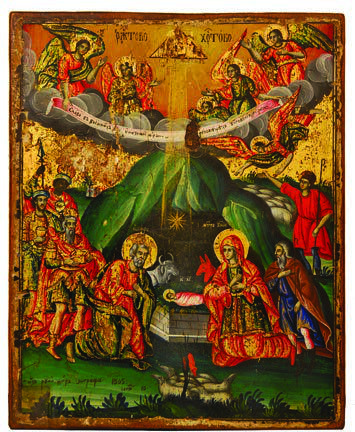 Nativity of Jesus Icon from Vidin Metropoly by Dicho Krastev, 1865